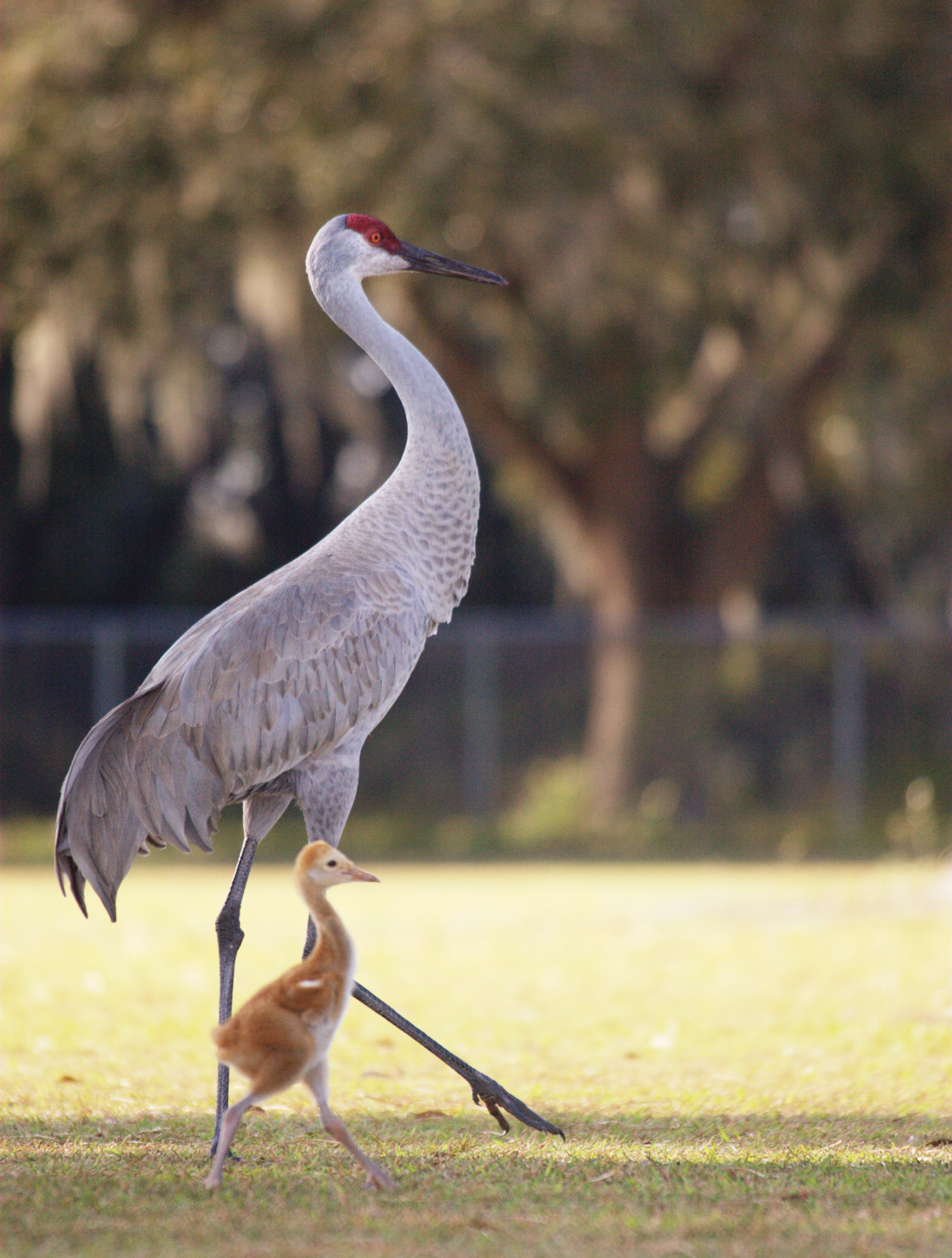 A Sandhill crane adult with chick